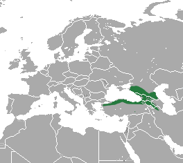 Caucasian Pygmy Shrew (Sorex volnuchini) range